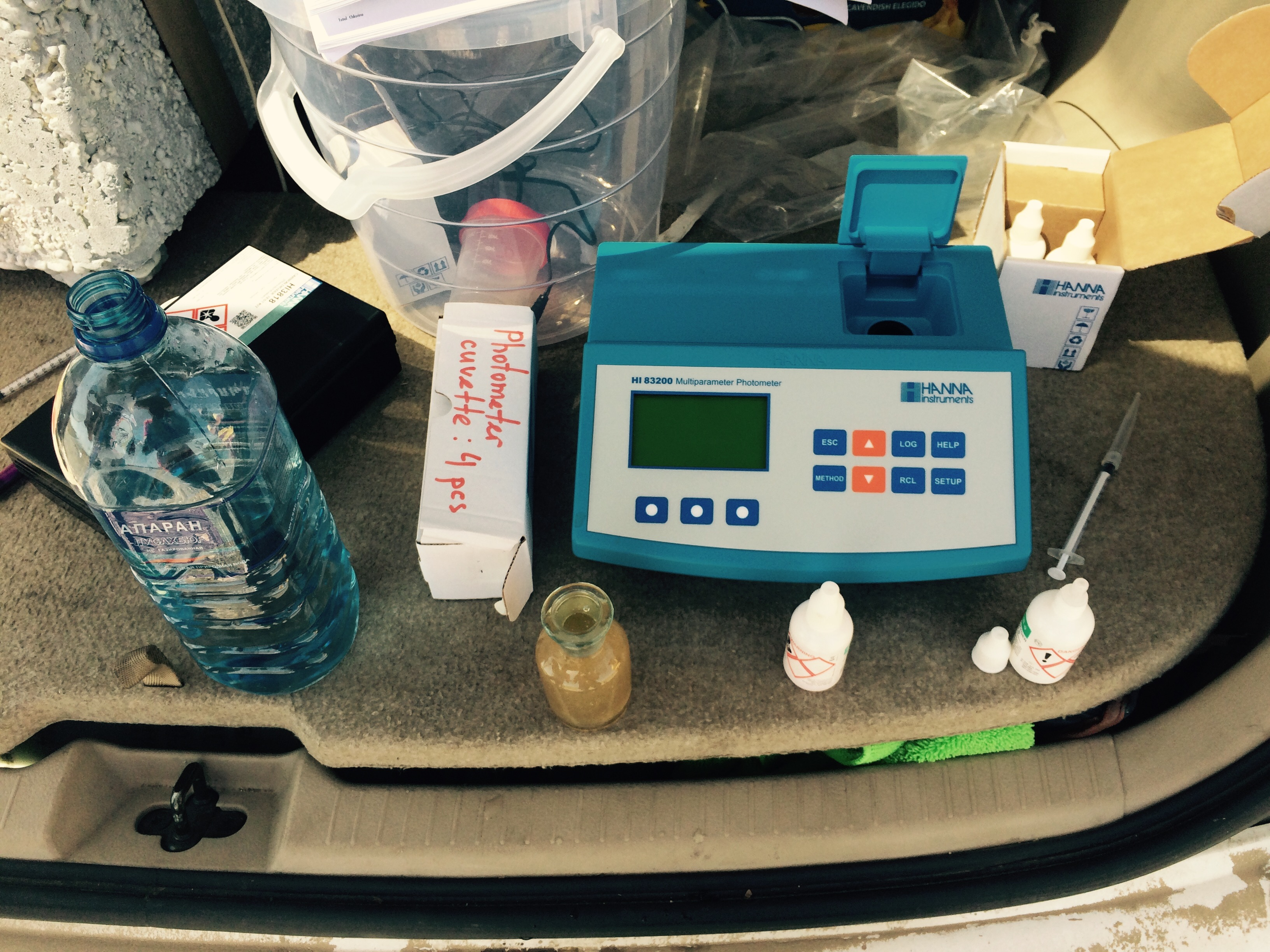 Chemichal analysis of the fish farm water.